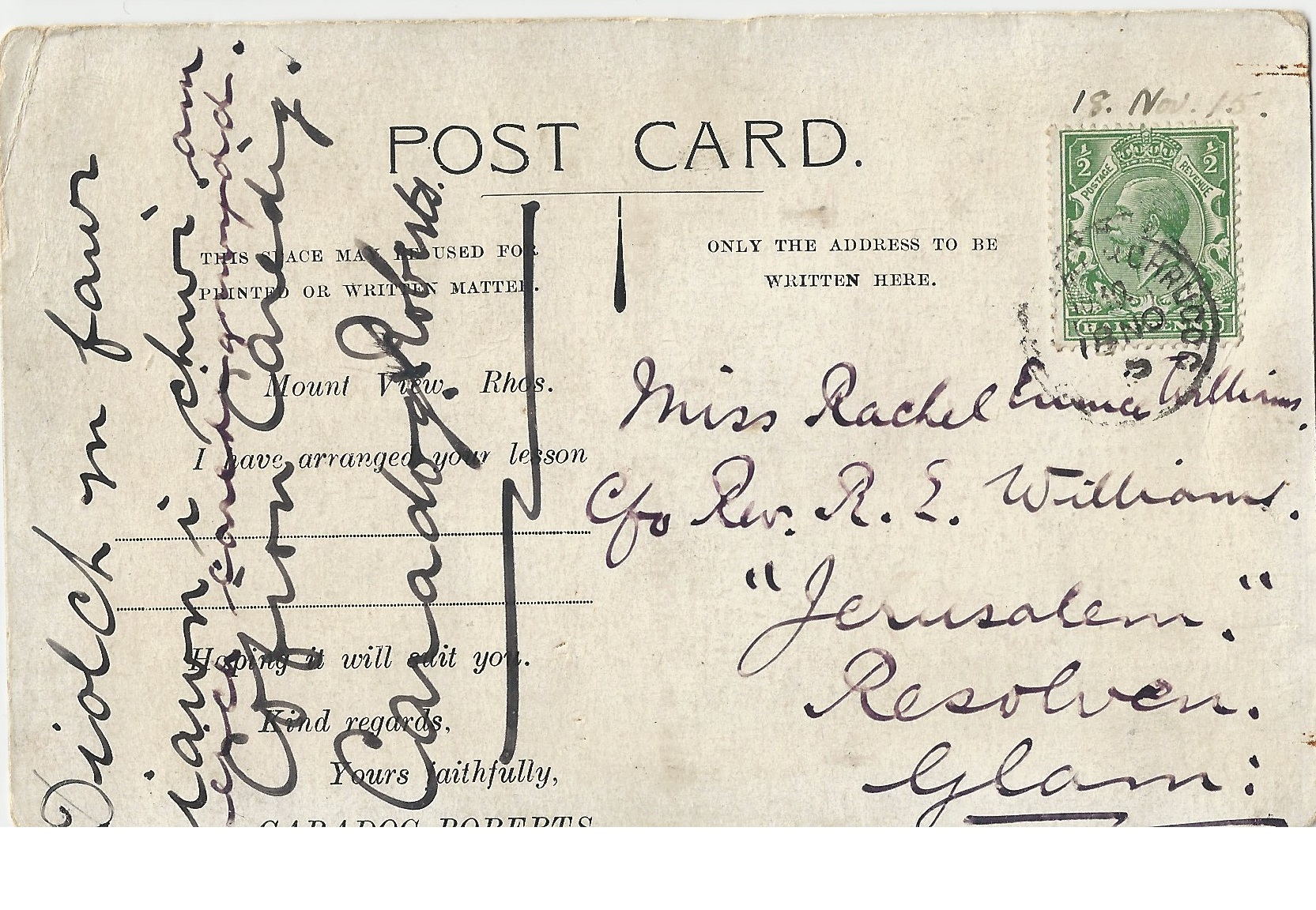 Reverse of postcard from Caradog Roberts to Rachel Jenkins Licensing Postcard: Stamp